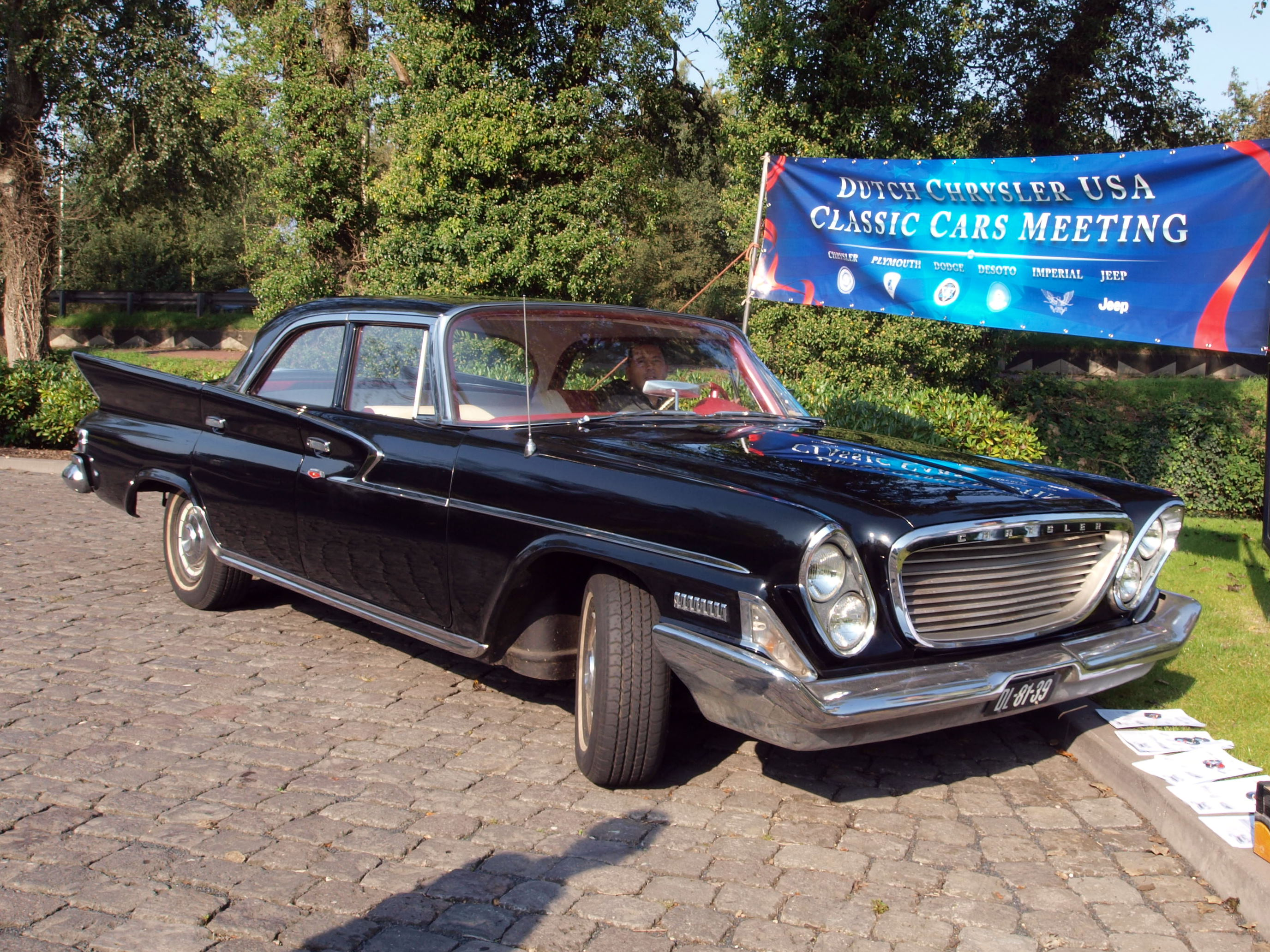 Photographed at the premmesis of the Louwman museum, The Hague, The Netherlands. OLYMPUS DIGITAL CAMERA